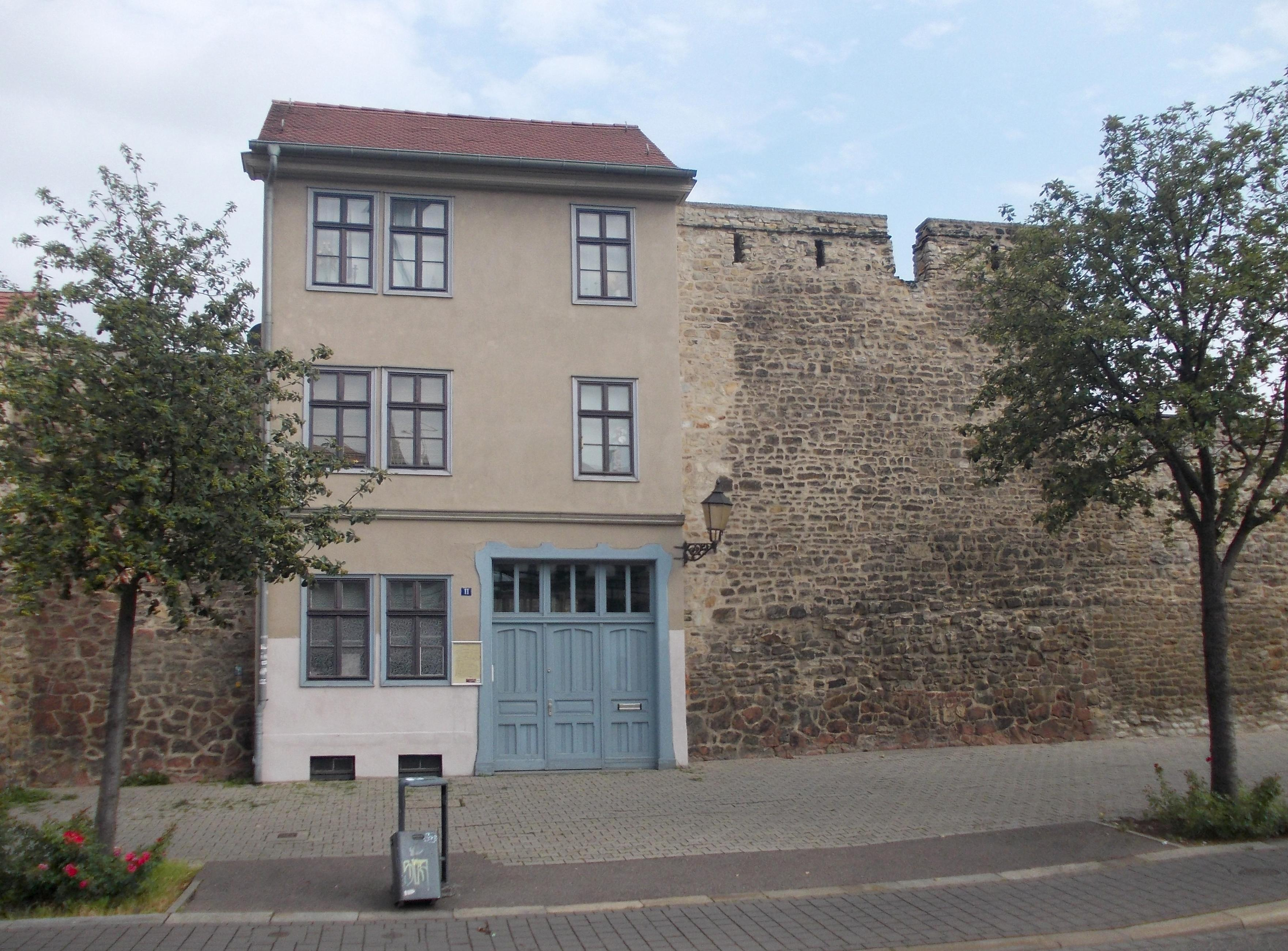 Remains of the city walls at Waisenhausring in Halle/Saale (Saxony-Anhalt)